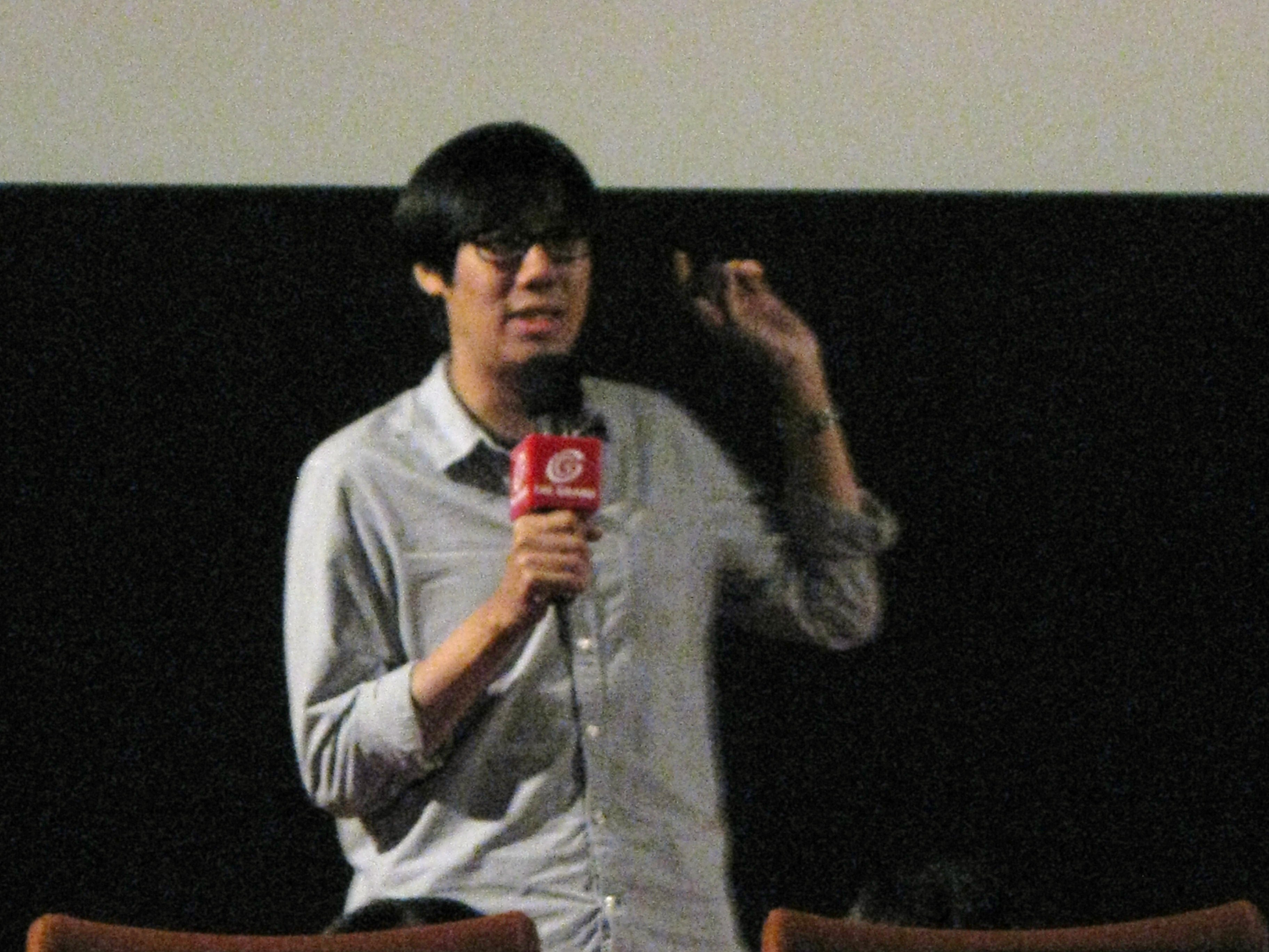 Alvin_Chen attends Au Revoir Taipei's release in Hong Kong 中文（香港）: 陳駿霖出席在香港的一頁台北分享會